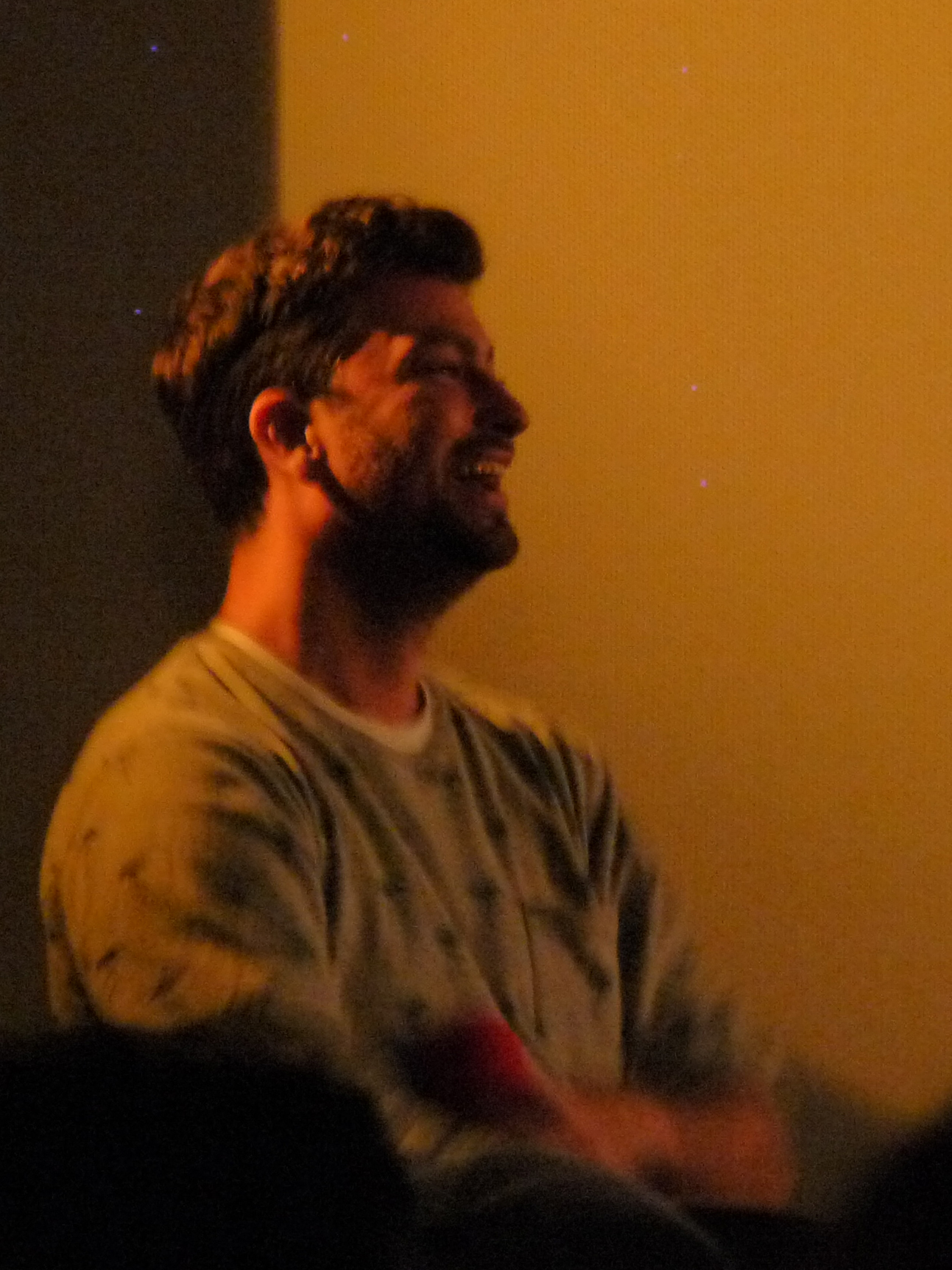 Marteria at the premiere of Weltreise mit Marteria in Cinema at Münster, Germany